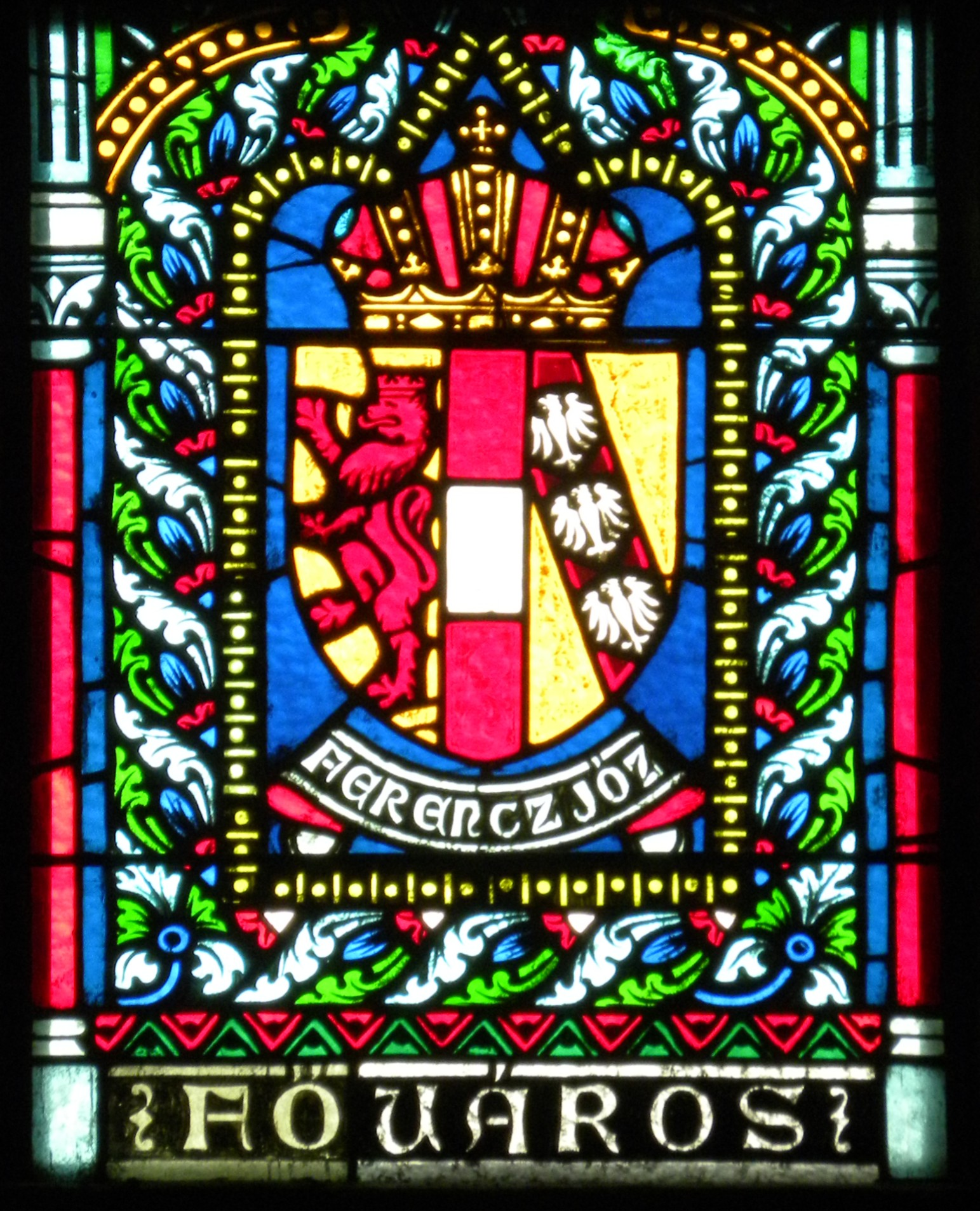 Coat of arms of Franz Joseph I of Austria. Stained glass window in Matthias Church, Budapest. Detail of this